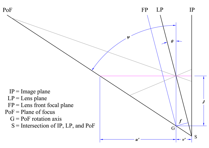 Diagram of PoF rotation-axis distance and angle of PoF with image plane with tilted lens.